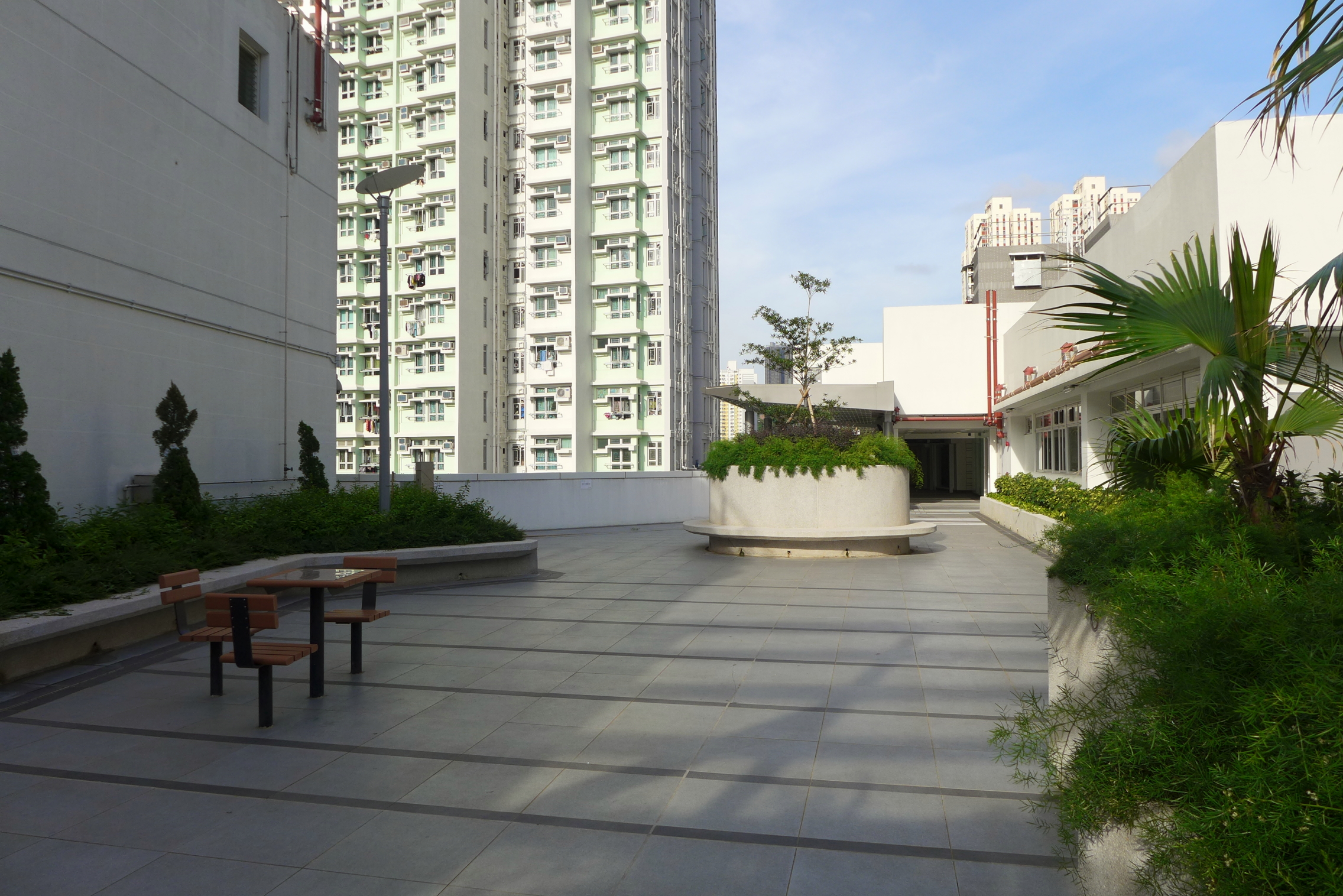 Ching Long Shopping Centre Level 2 Garden